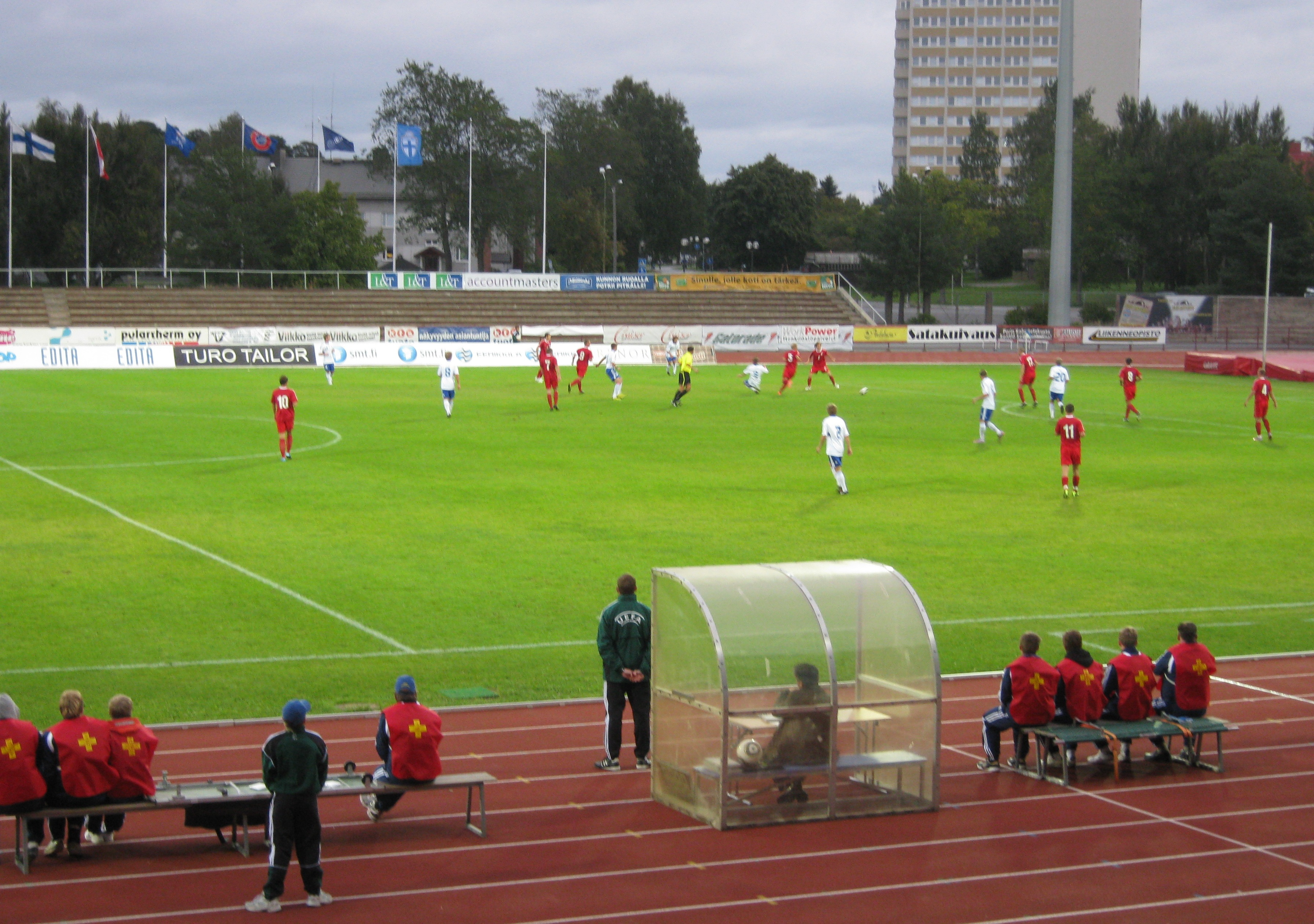 U21 football international Finland vs. Poland at Porin Stadion, Pori Finland.